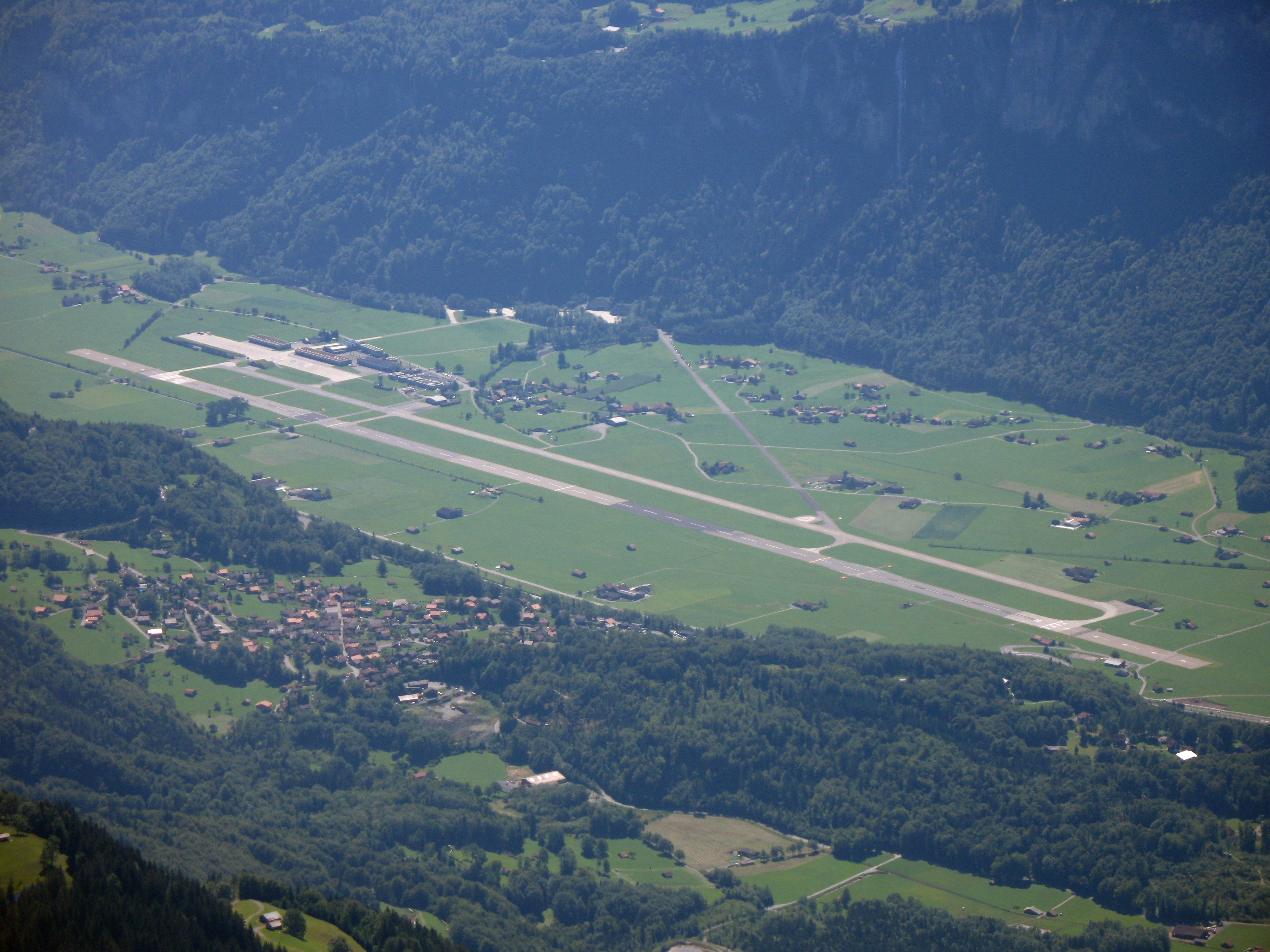 Swiss Air Force base viewed from the Rothorn, Brienz, Switzerland